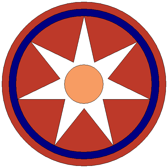 Shieldpattern of Martii (ex Legio I Martia) in early 5th century. Source: Notitia Dignitatum Or. IX.